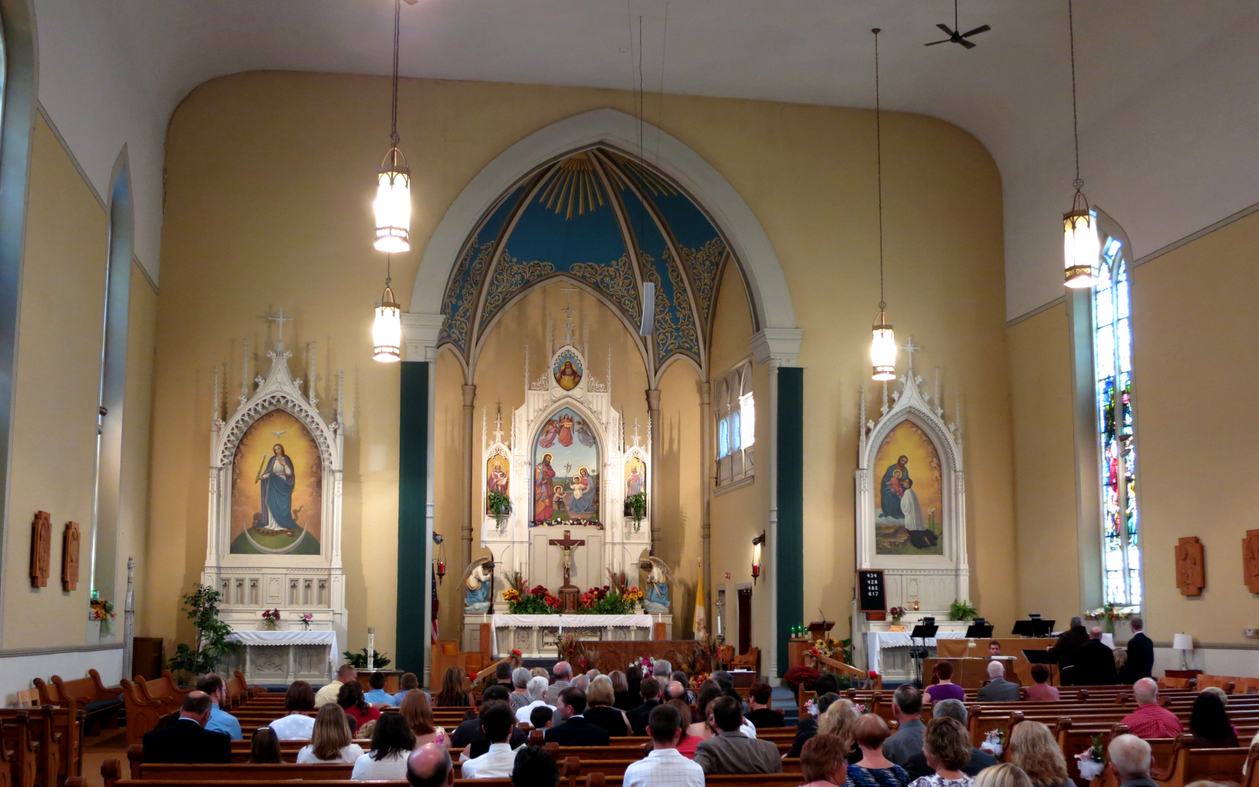 Holy Family Catholic Church (Oldenburg, Indiana) - interior, nave before a wedding Mass